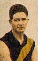 Photo of Basil McCormack taken in 1926